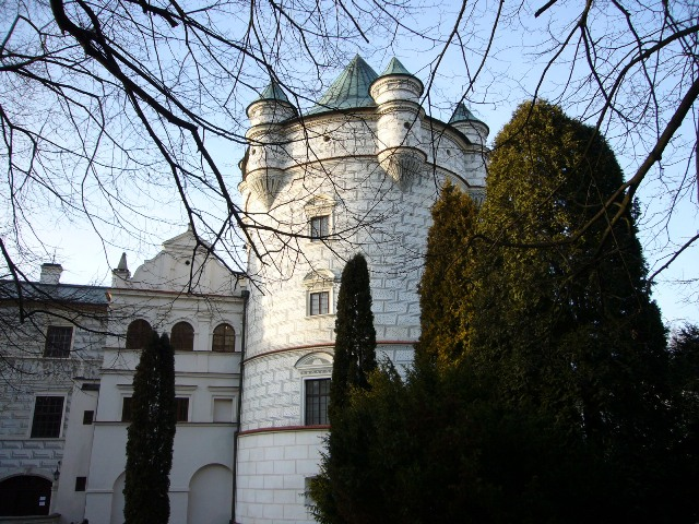 A castle in Krasiczyn, Poland.